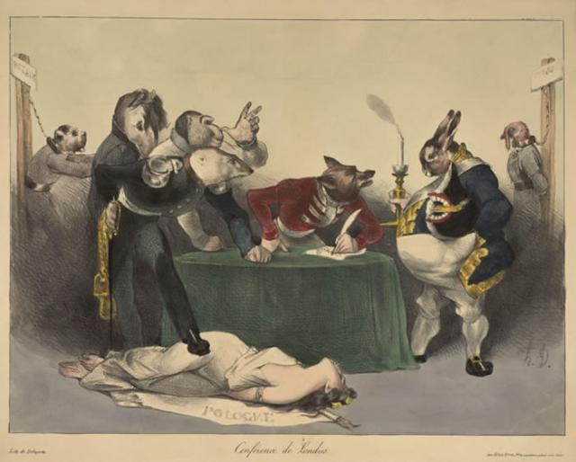 Conférence de Londres, 1832, headed by TALLEYRAND, French ambassador. At this conference the borders between Belgium,Luxemburg and Holland were redrawn. The horse: Prussia The bear: Russia The monkey: Austria The fox: Britain the hare: France the turkey: Belgium the dog: the Netherlands (Holland) Woman on the floor: Poland References